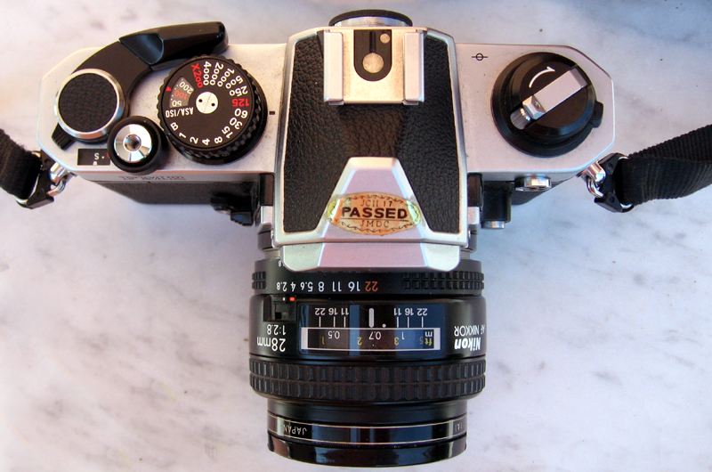 Top view of Nikon FM2 SLR camera